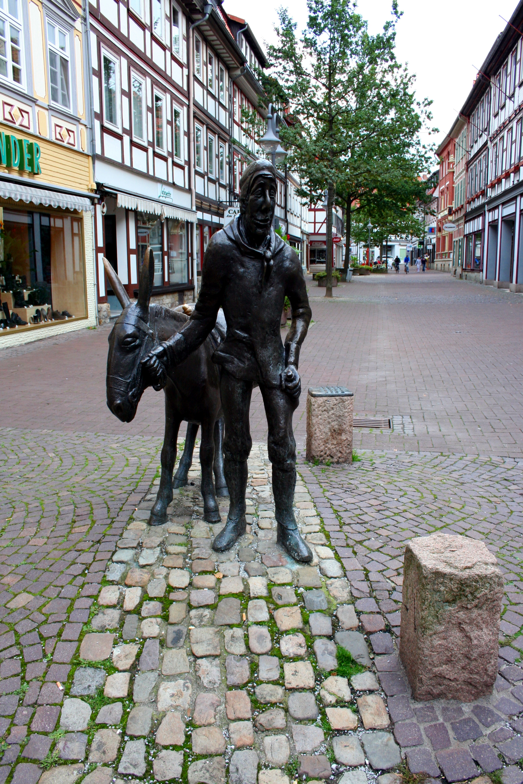 donkey driver memorial in the pedestrian area of Osterode am Harz, Germany